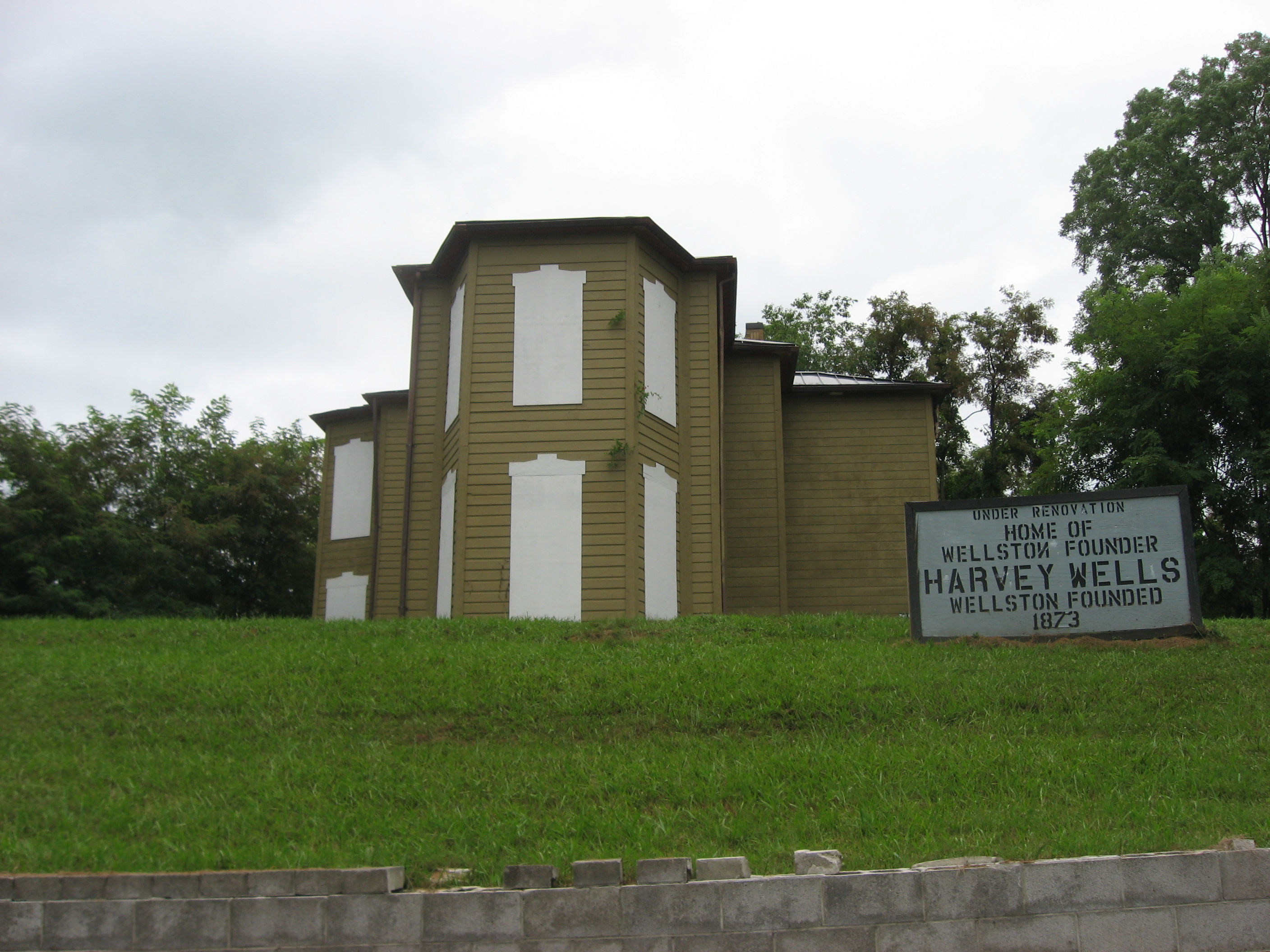 Front of the Harvey Wells House, located at 403 E. A Street in Wellston, Template:Ohio, United States. Built in 1883, it is listed on the National Register of Historic Places.